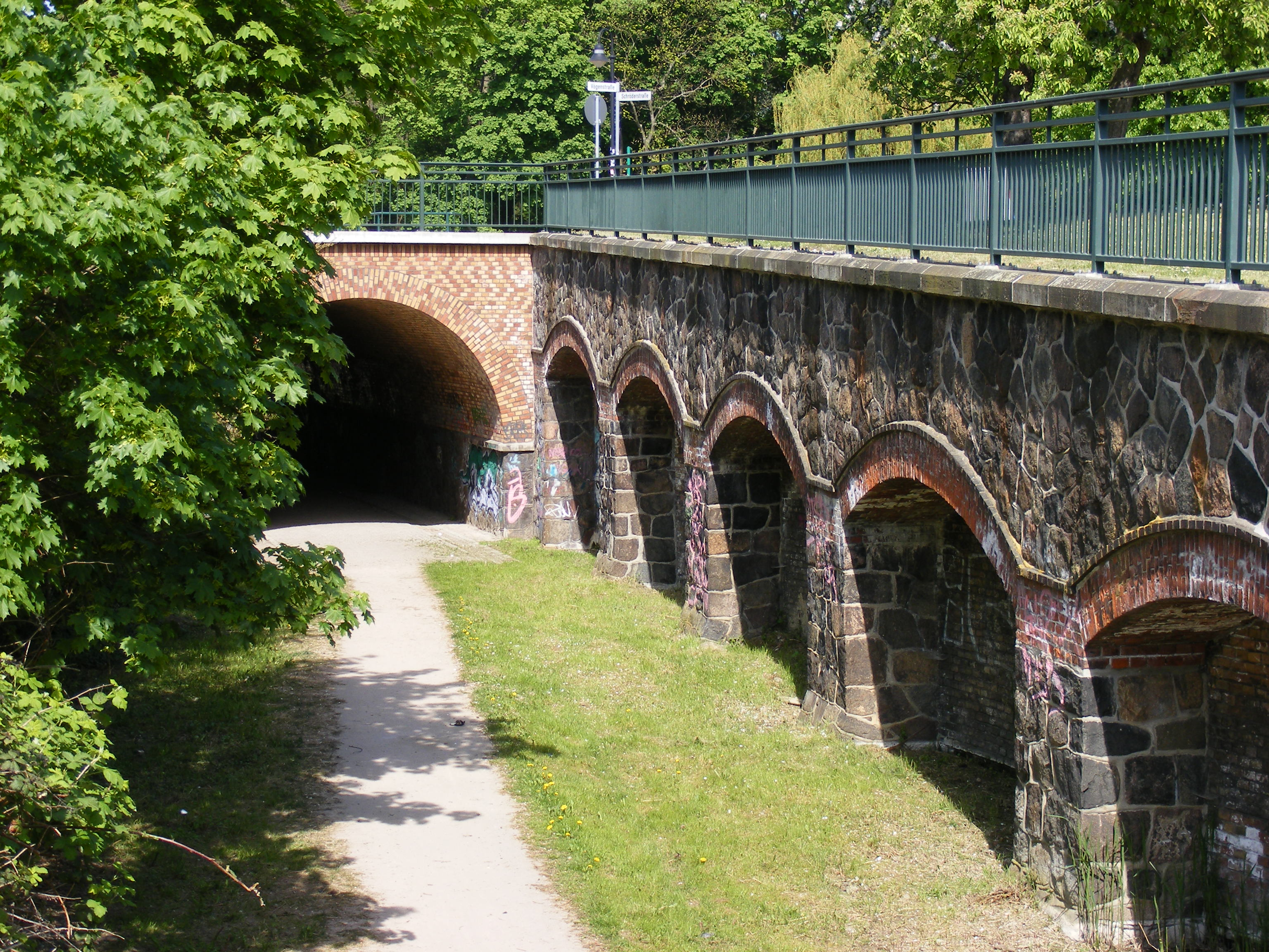 Relics of former railway to Rostock City Port